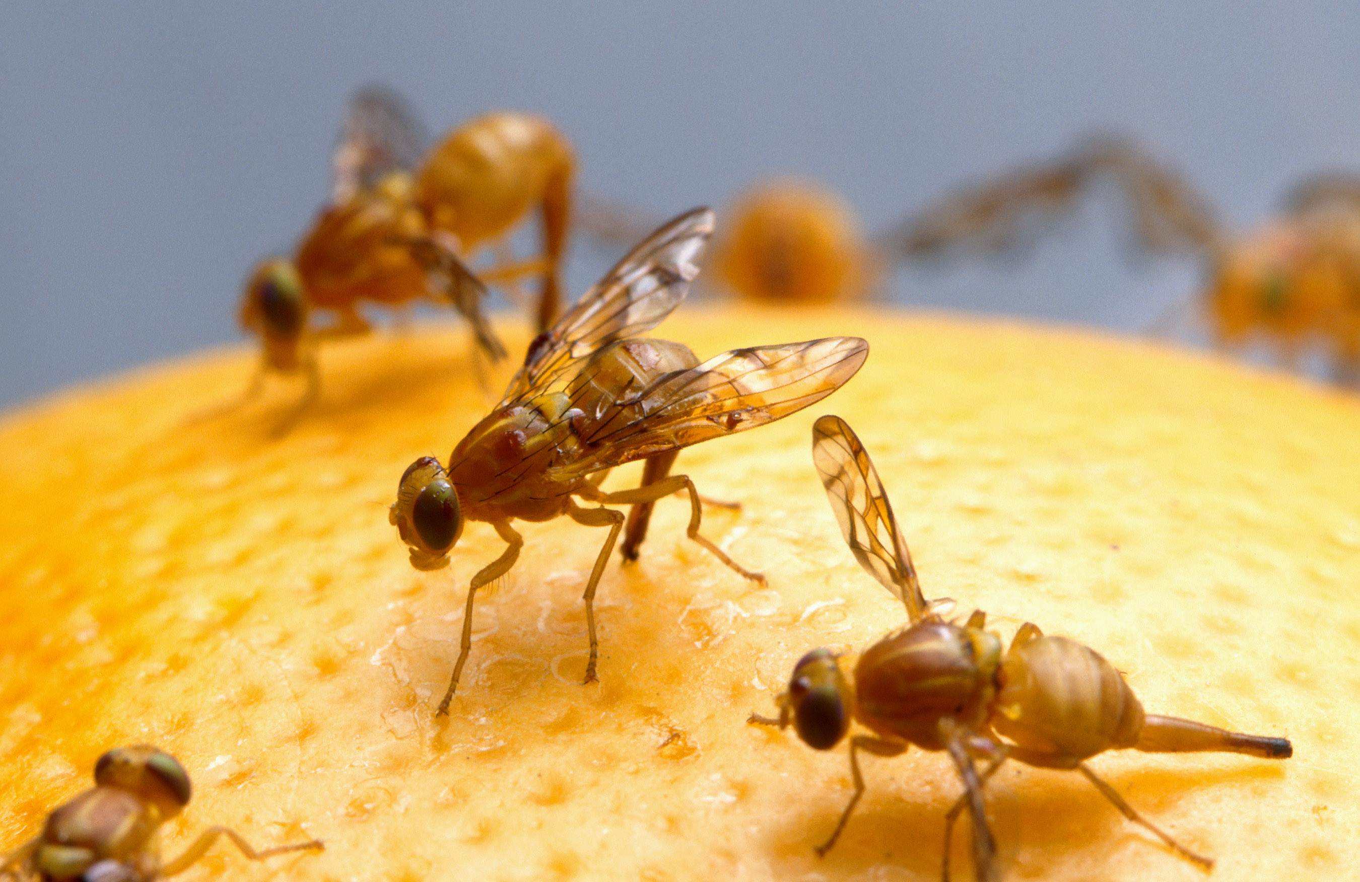 Female Mexican fruit fly from Thumbnail Image Number K7500-5 In grapefruit as well as many other fruits, one female Mexican fruit fly can deposit large numbers of eggs: up to 40 eggs at a time, 100 or more a day, and about 2,000 over her life span. Photo by Jack Dykinga.